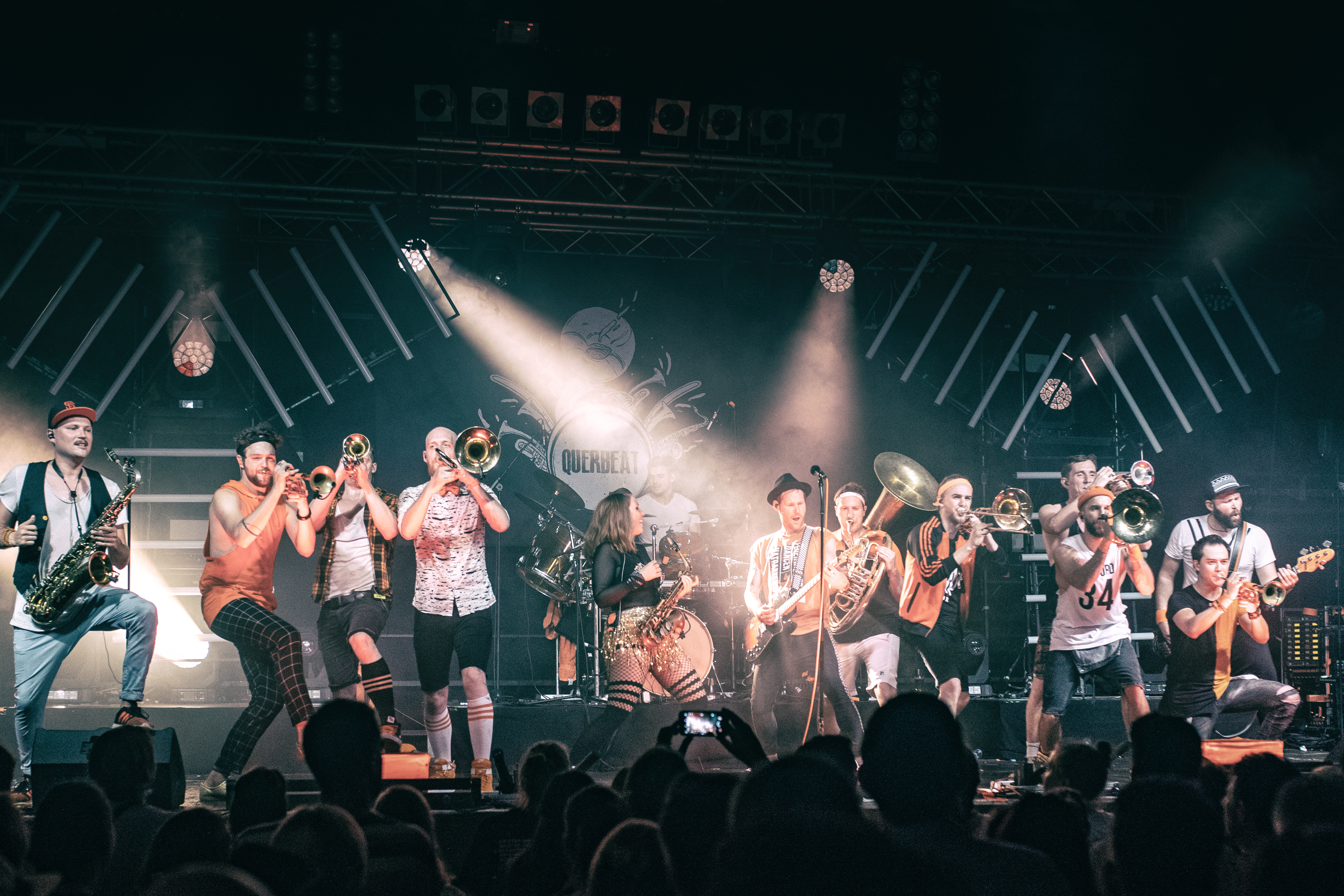 Querbeat live in Cologne, April 2018